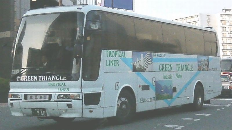 Company:Minamikyushu Bus Network Use:highway bus Car license:鹿児島22 き・940 Chassis manufacturer:Mitsubishi Motors Coachbuilder:Mitsubishi FUSO Bus Manufauturing Location:in Fukuoka City, Fukuoka, Japan.